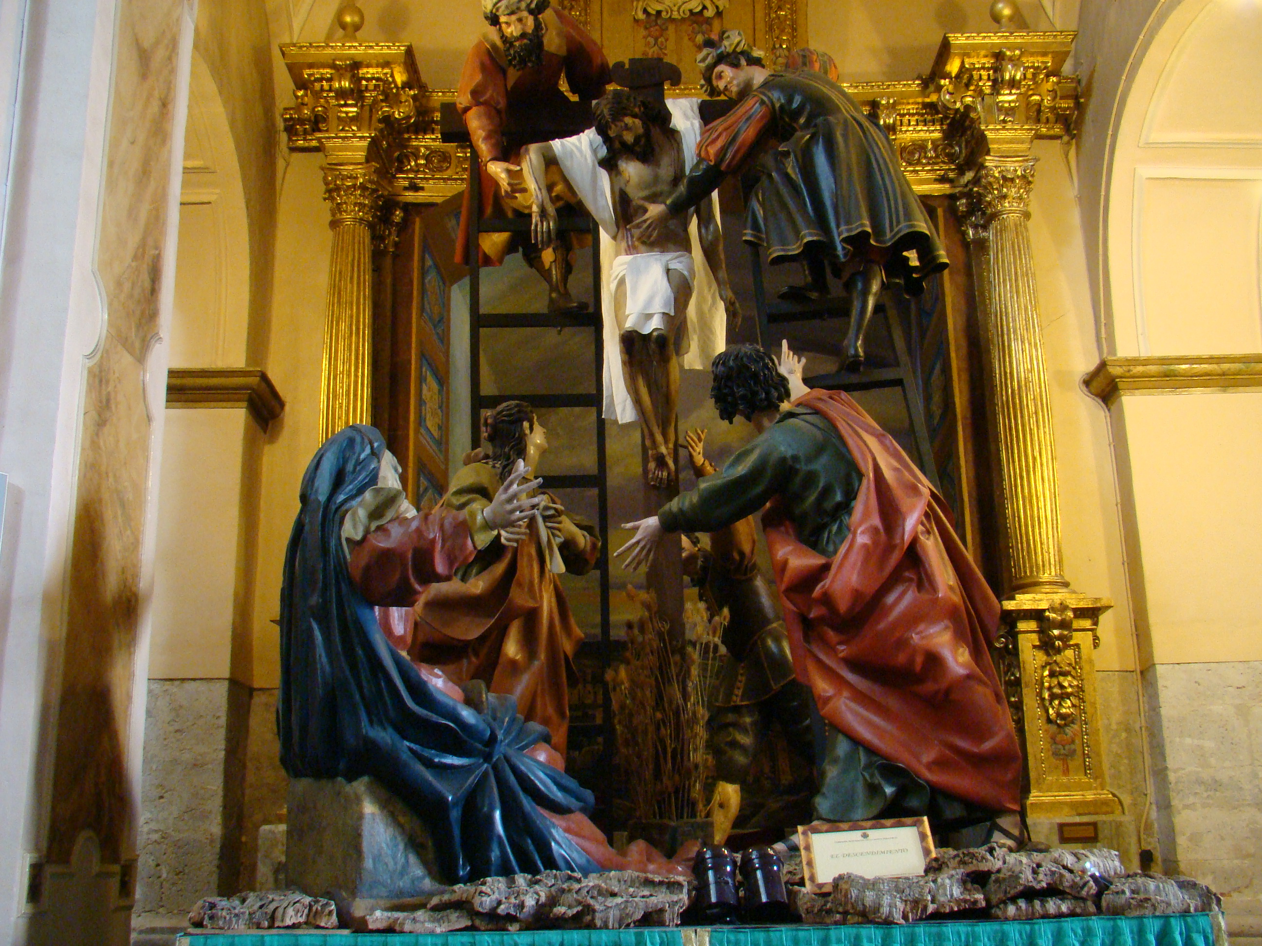 Valladolid, church of the Vera Cruz. Scene called "Paso" of the Descent, by the scultor Gregorio Fernández. This "Paso" goes out on a procession during the Holy Week with the Brotherhood (Cofradía) of the Descent illuminating it.